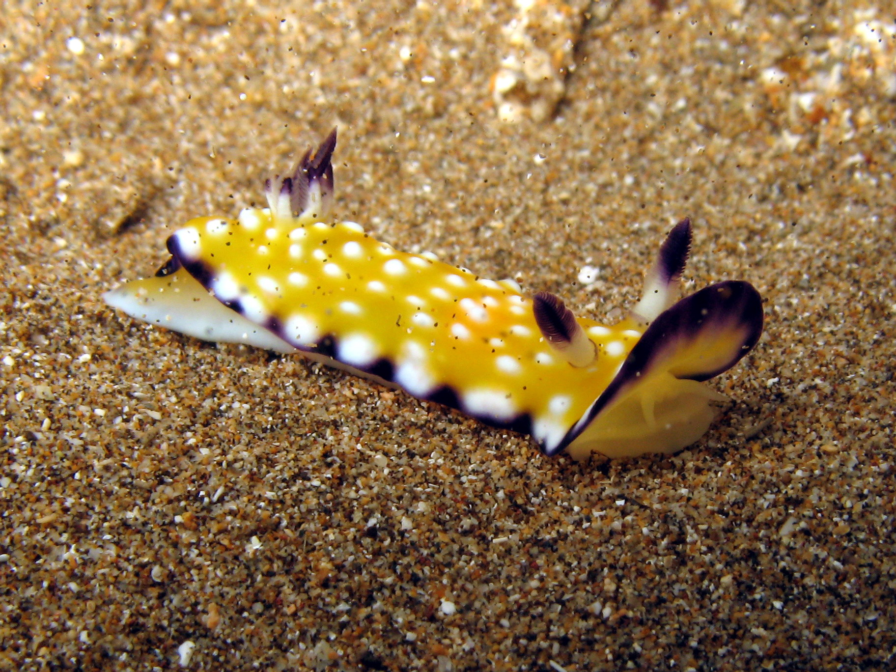 Nudibranch Goniobranchus vibratus (Pease, 1860) (synonym: Chromodoris vibrata)